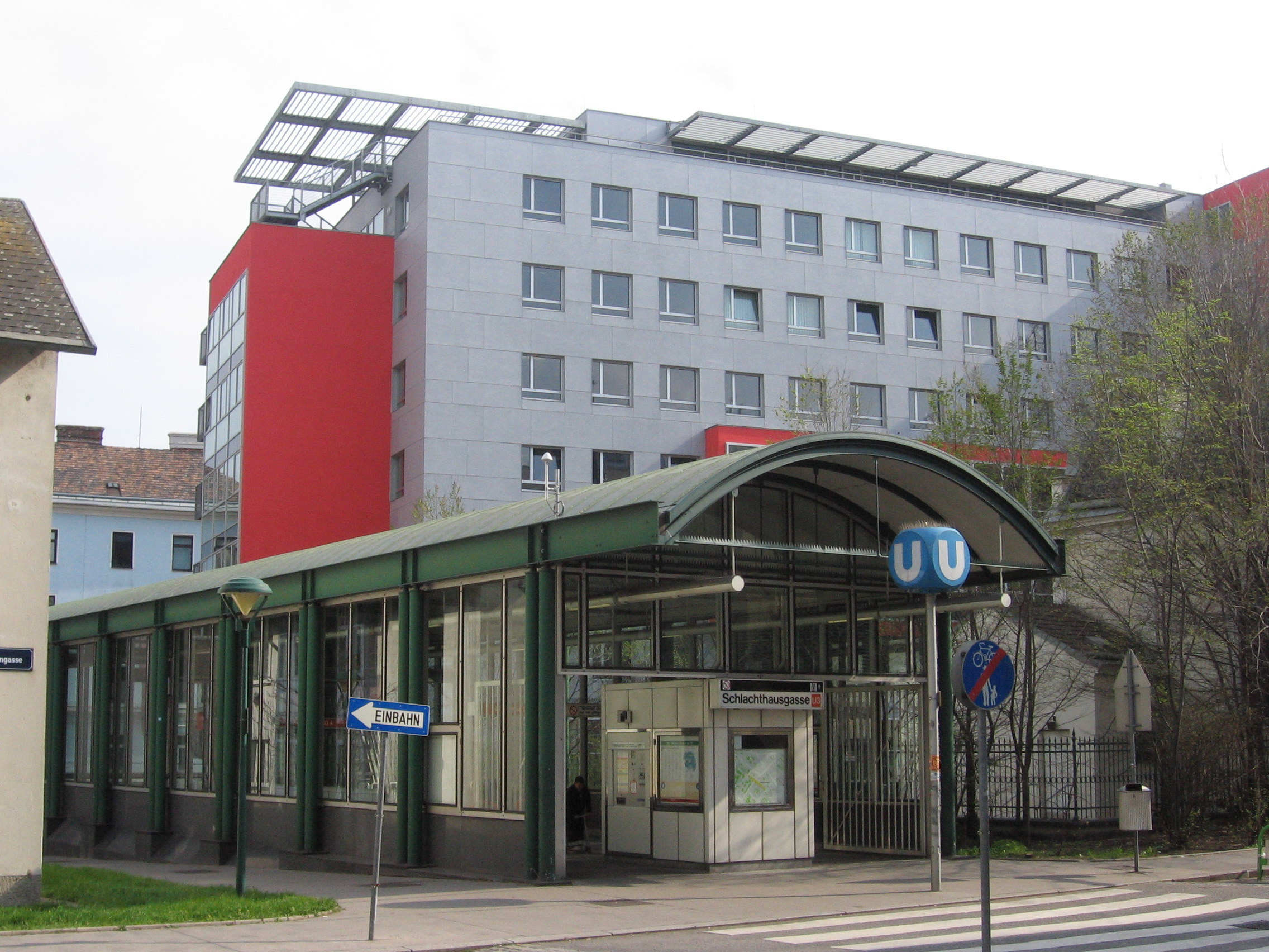 The subway station Schlachthausgasse in Vienna